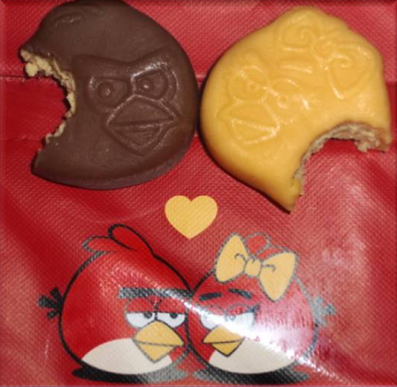 A snowy skin mooncake